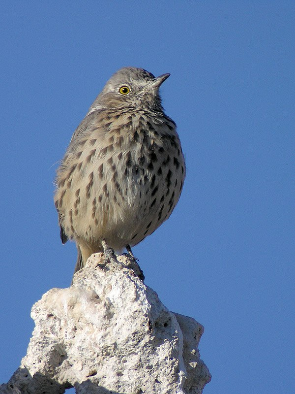 Sage Thrasher (Oreoscoptes montanus) Taken on South Tufa, Mono Lake, September 15, 2007. This smallest of the thrashers is perhaps more closely related to the mockingbirds. Note the small straight bill. Probably a juvenile. Morning light and high altitude made from intense icy blue sky. Under-exposed by -0.3. Minimal PS.